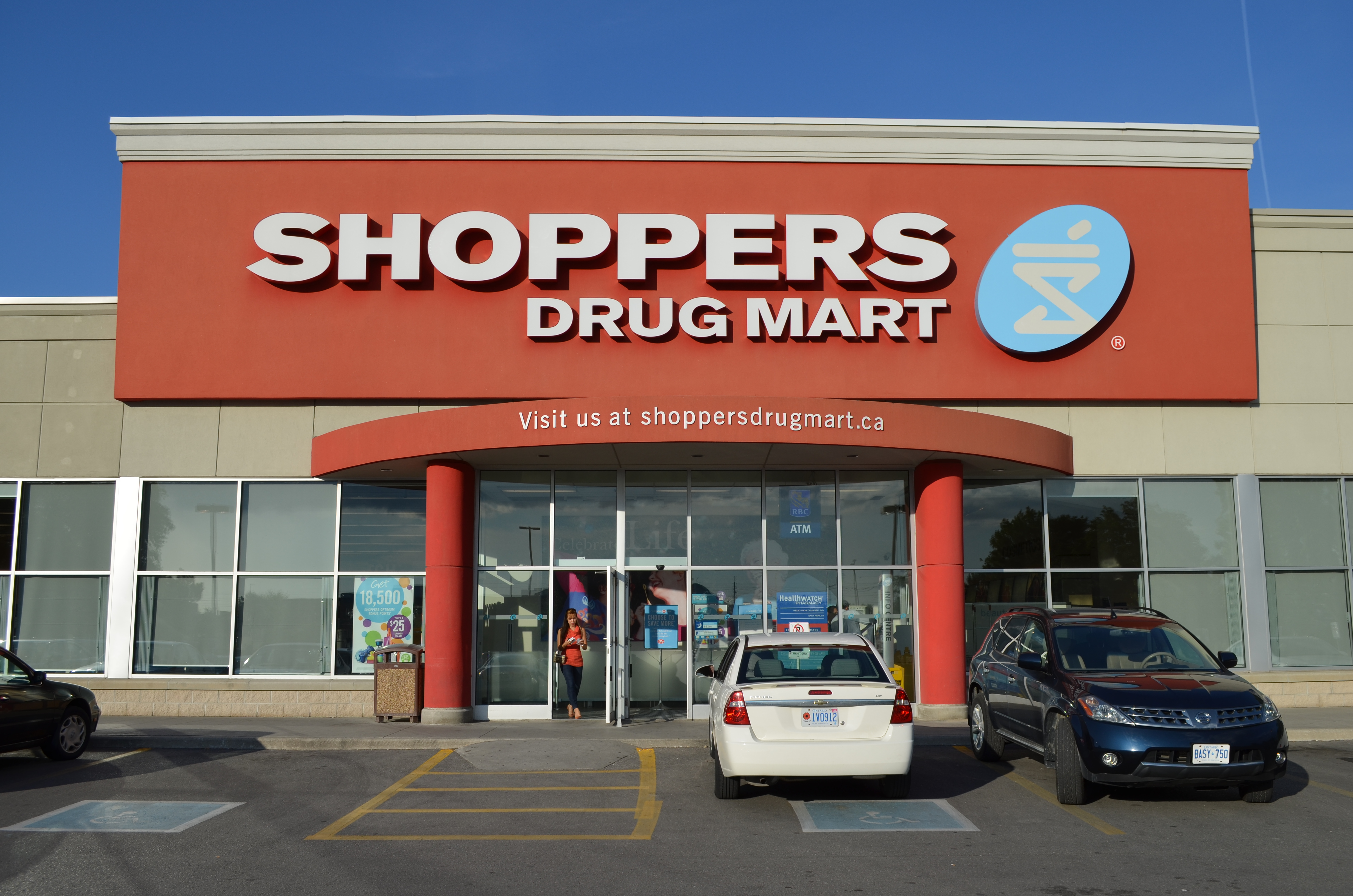 Shoppers Drug Mart, 298 John St, Thornhill